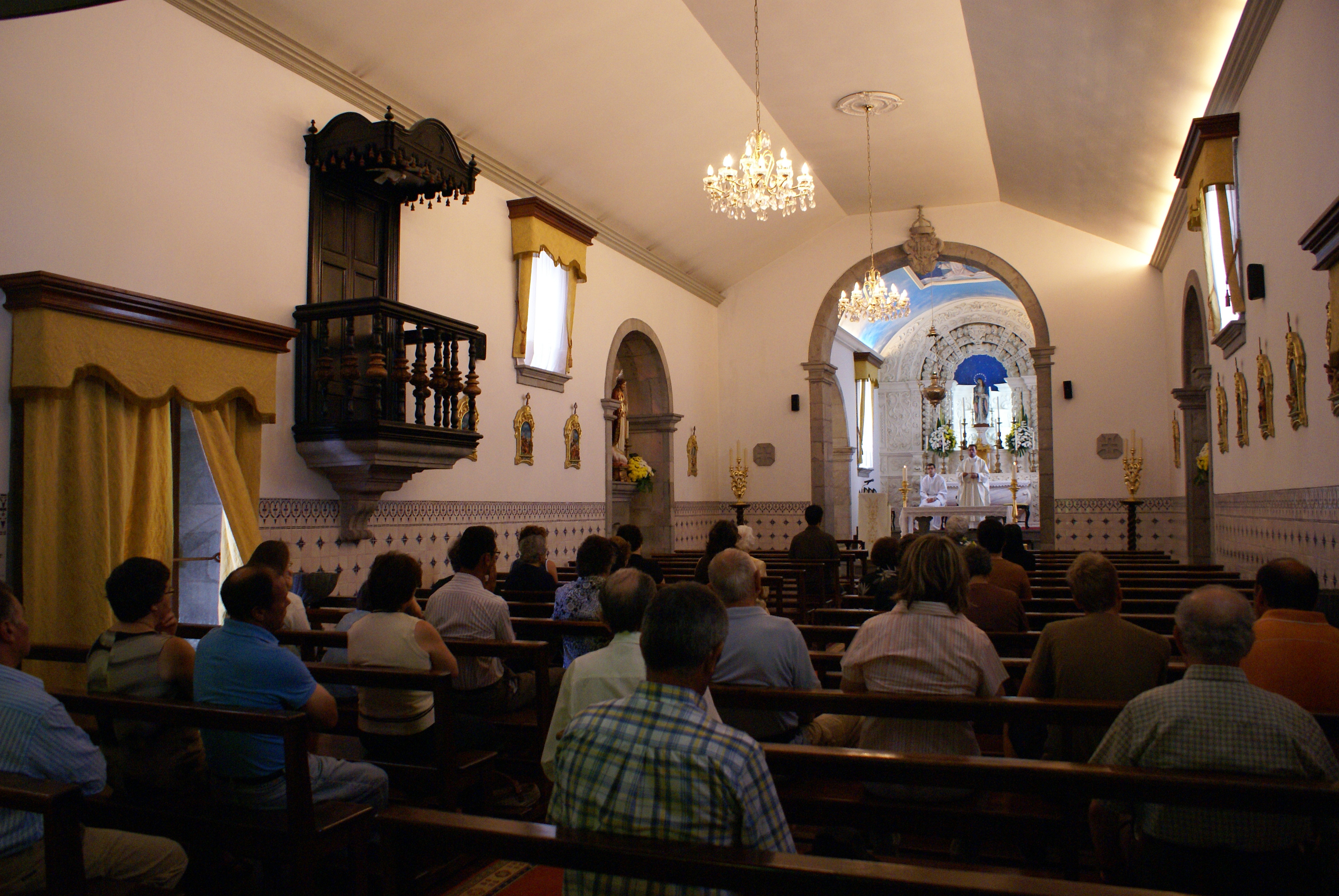 Nave of the Church of Nossa Senhora das Candeias during services, Candelária, Ponta Delgada, São Miguel (Azores), Portugal